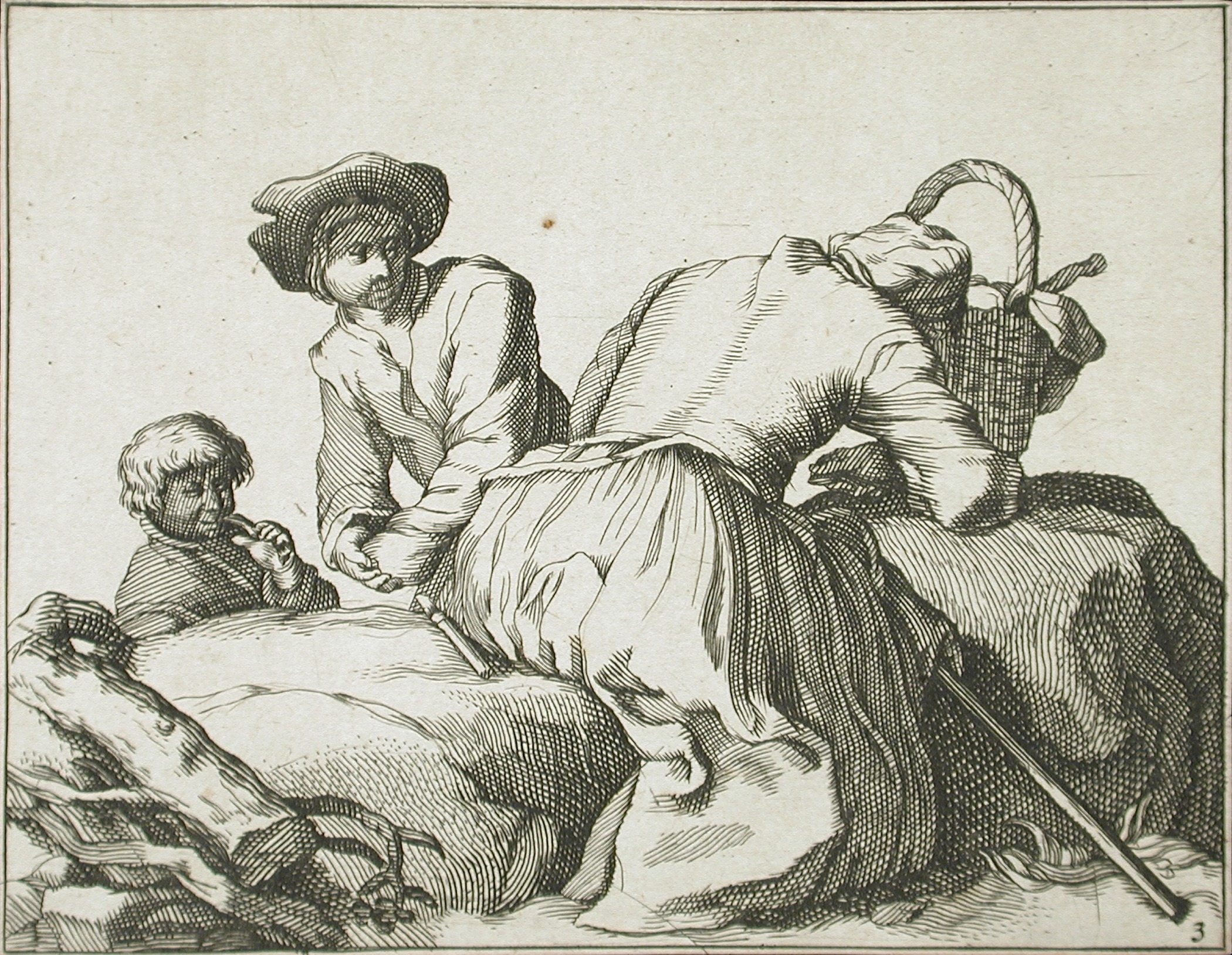 Holland, 17th century Prints; engravings Engraving Gift of H. Sterzer (M.89.165.5) Prints and Drawings